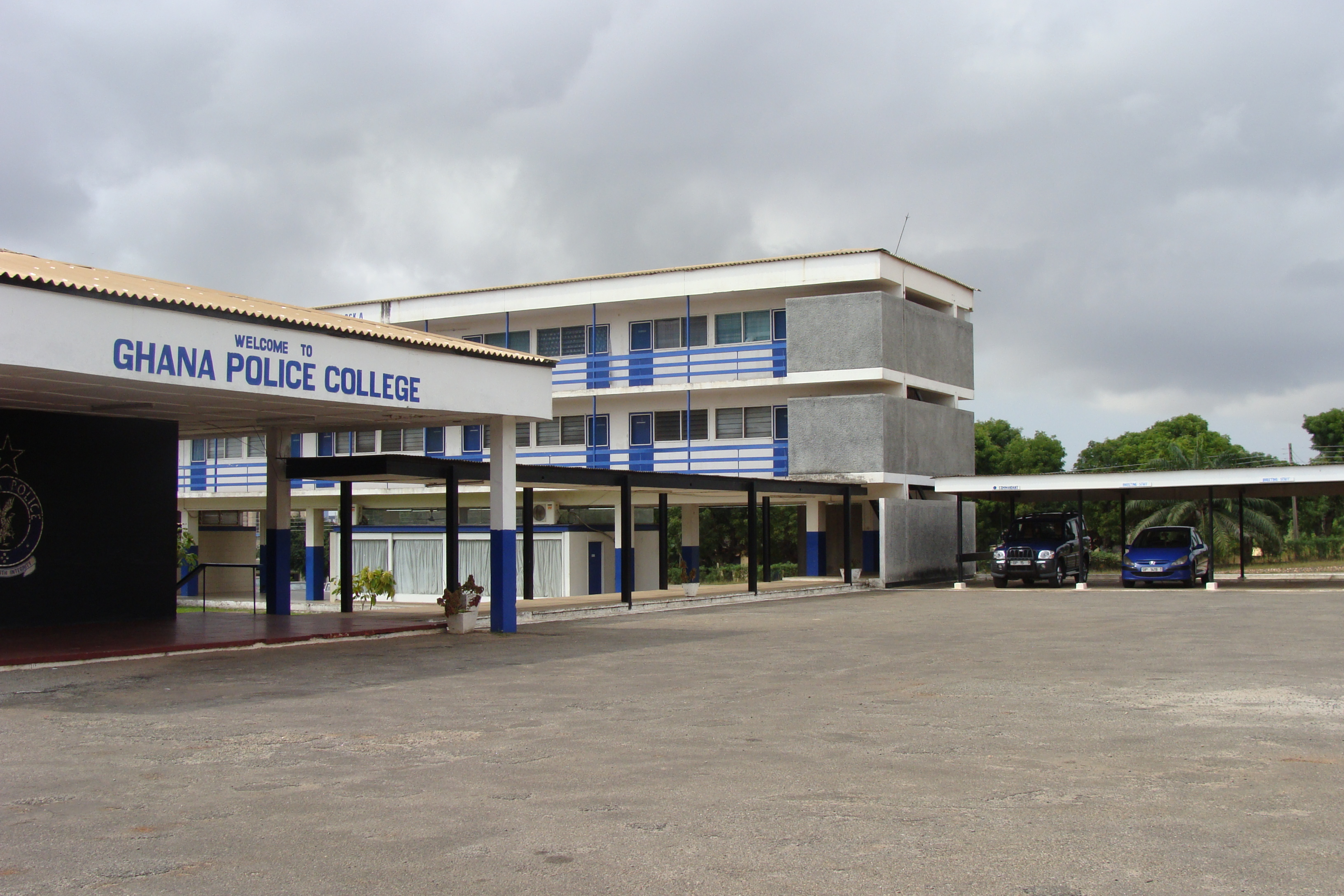 Ghana Police College main buildings